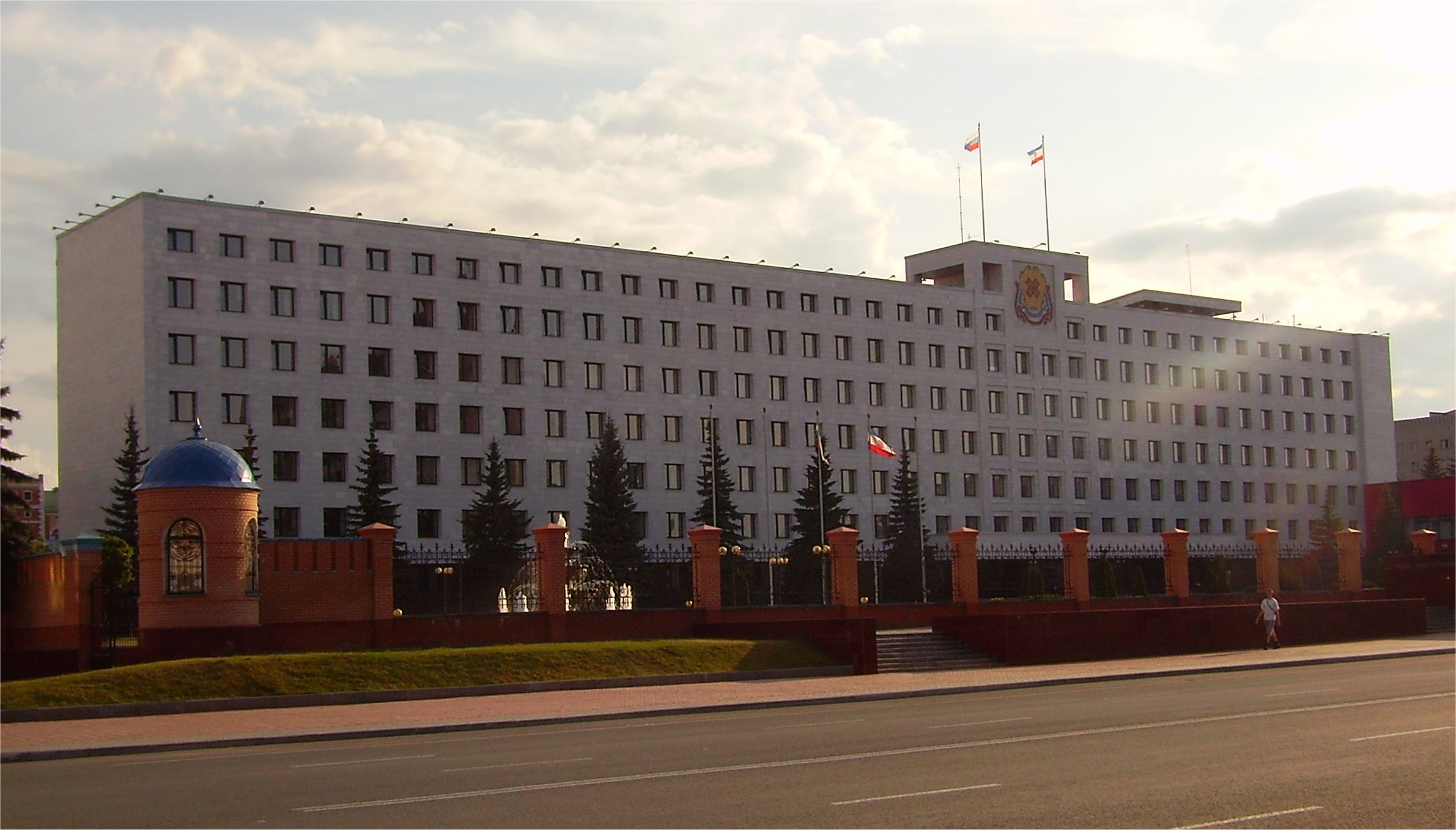 Cropped version of earlier image (2009) of the Governement building of the Mari El Republic.